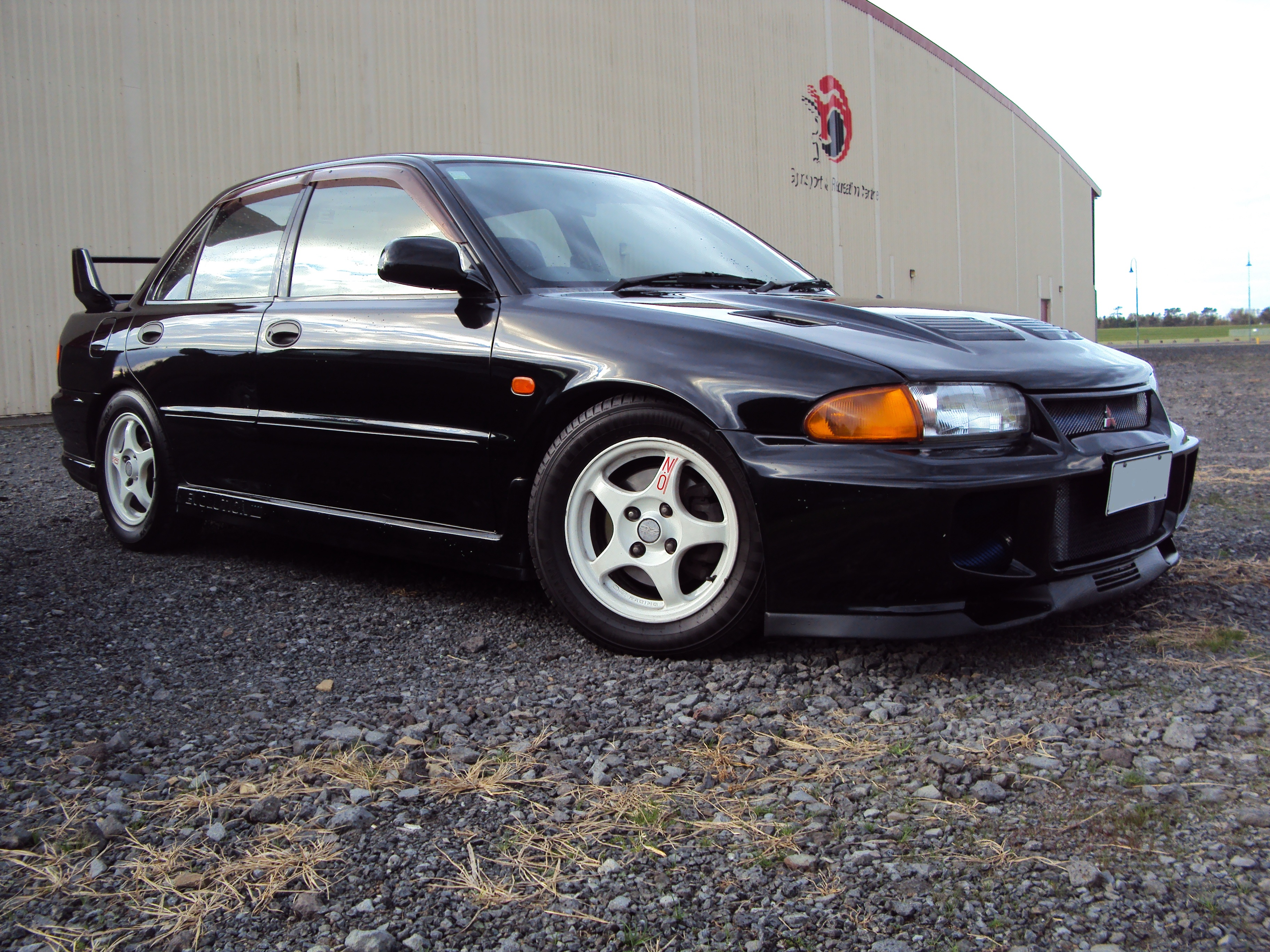 95 mitsubishi lancer Evolutioin lll gsr